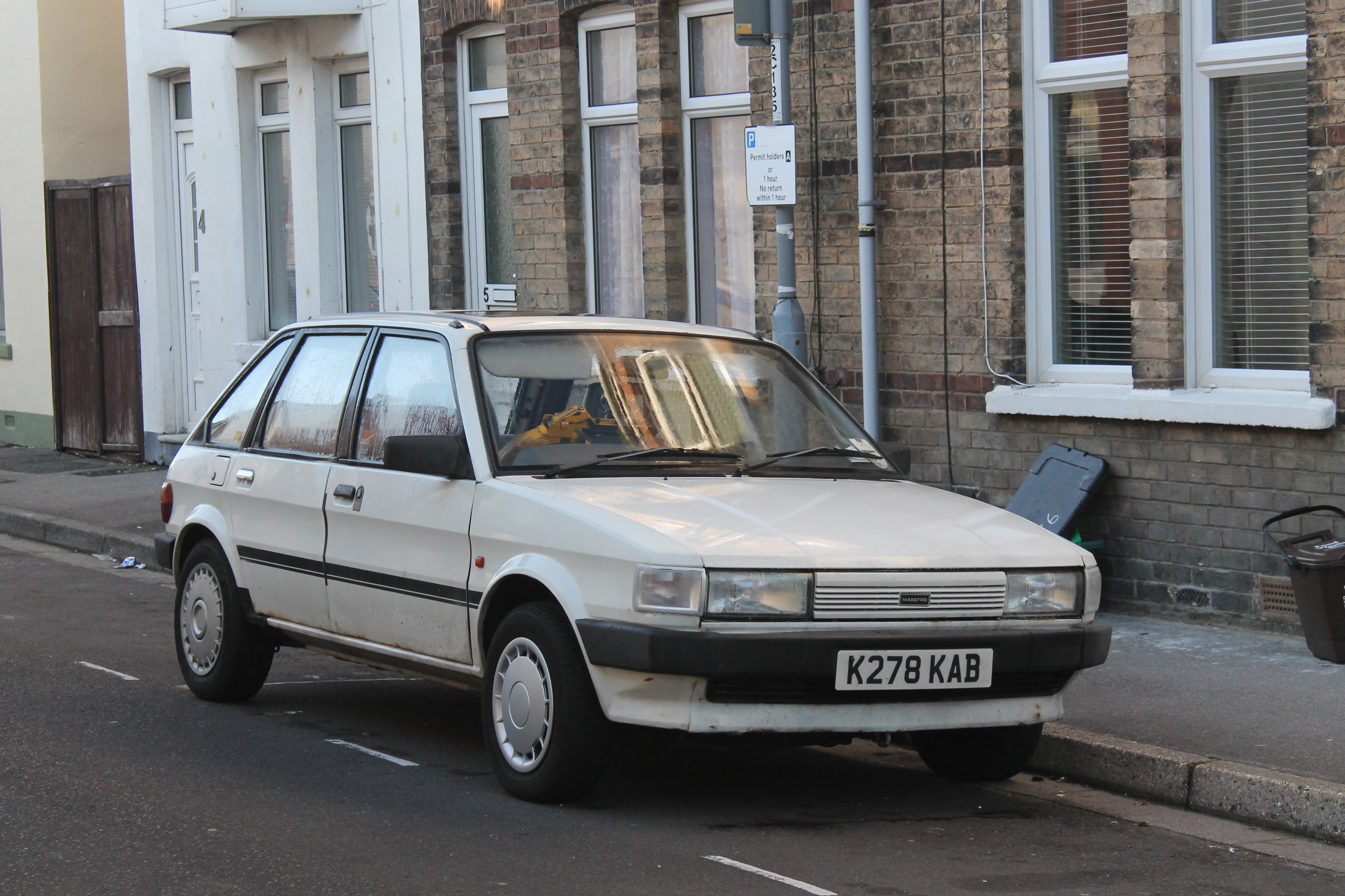 One of the first interesting cars I spotted, I revisited in December, and it was still there! Not looking bad for its age at all Registration number: K278 KAB ✔ Taxed Tax due: 01 October 2015 ✔ MOT Expires: 21 September 2019